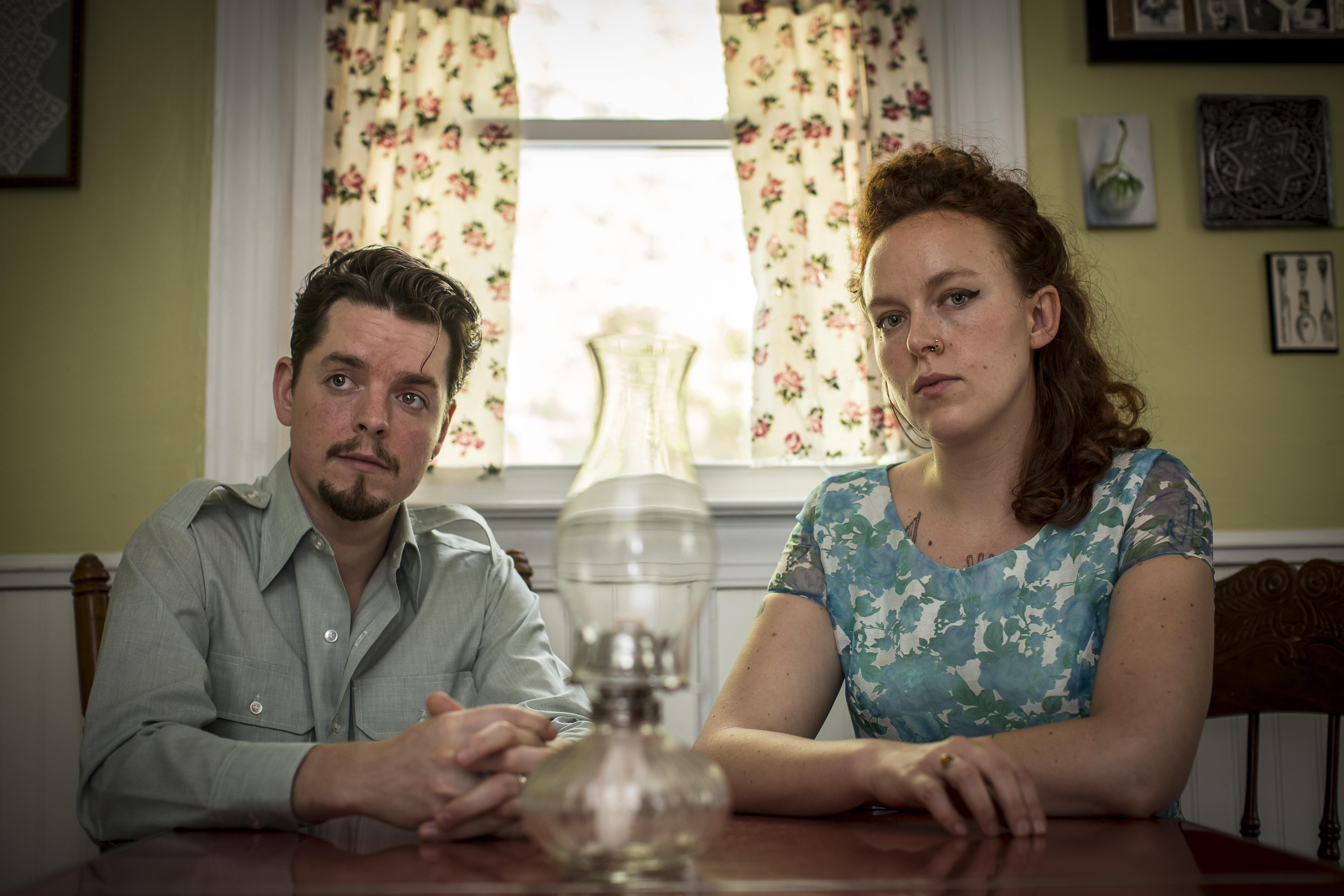 Robert Jackson and Alicia Best, photo credit Chloe Noblit Photography